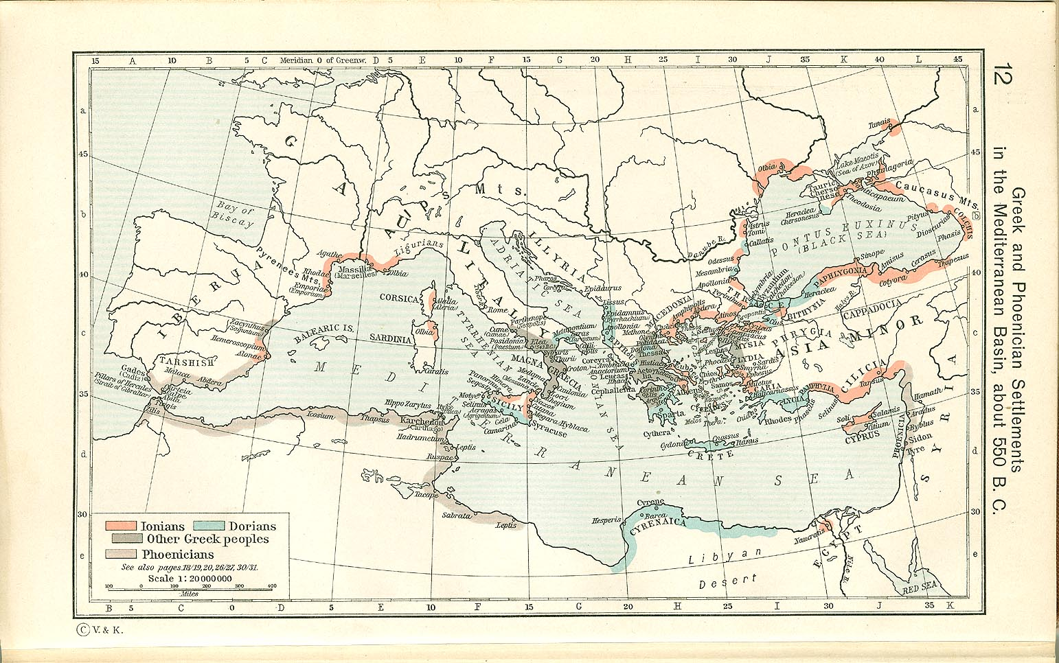 Greek and Phoenician Settlements in the Mediterranean Basin, about 550 B.C.. Historical Atlas by William R. Shepherd, 1911. Courtesy of the University of Texas Libraries, The University of Texas at Austin. From The Historical Atlas by William R. Shepherd, 1911 edition